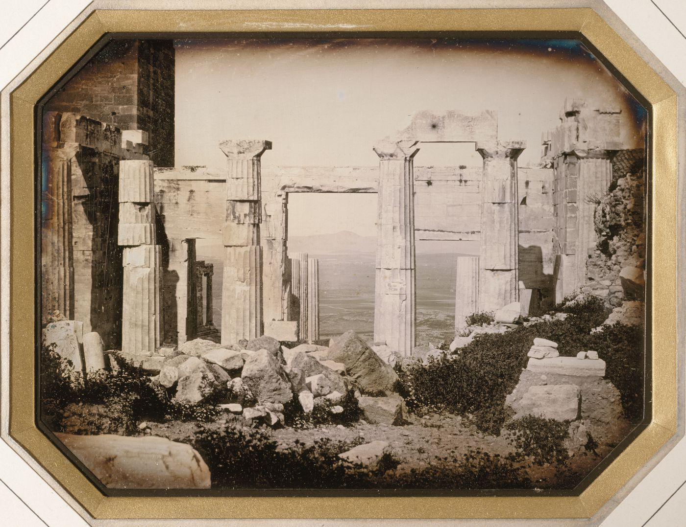 View of the east façade of the Propylaea on the Acropolis, Athens, May–June, 1850. (The dark building in the left quarter of the photo is the now-demolished Frankish Tower) Daguerreotype; 14.9 x 20 cm (5 7/8 x 7 7/8 in.) Collected by the Canadian Centre for Architecture, Montreal